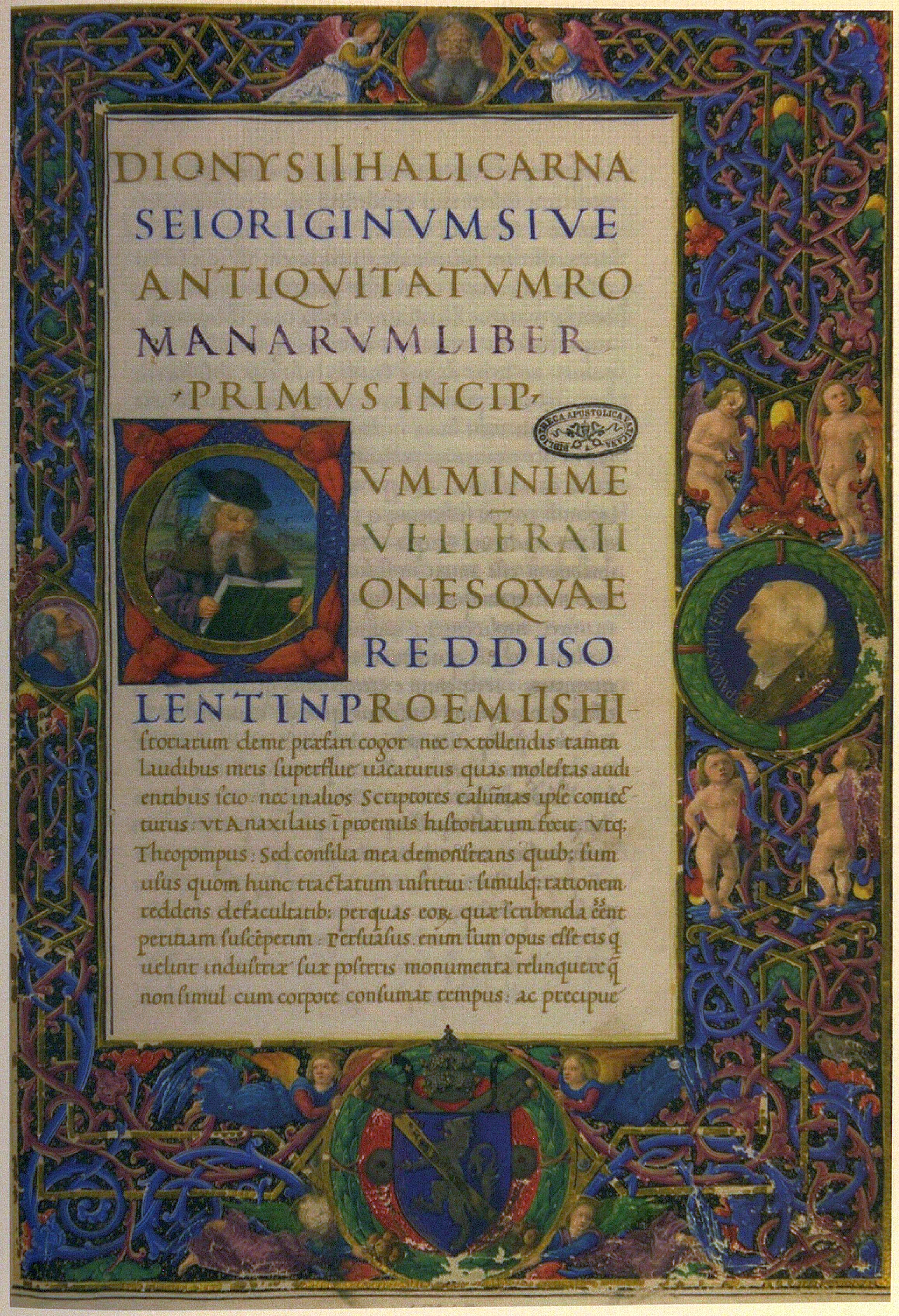 The beginning of Lampugnino Birago’s Latin translation of the „Roman Antiquities“ in the dedication copy for Pope Paul II, the manuscript Biblioteca Apostolica Vaticana, Vat. lat. 1819, fol. 1r.